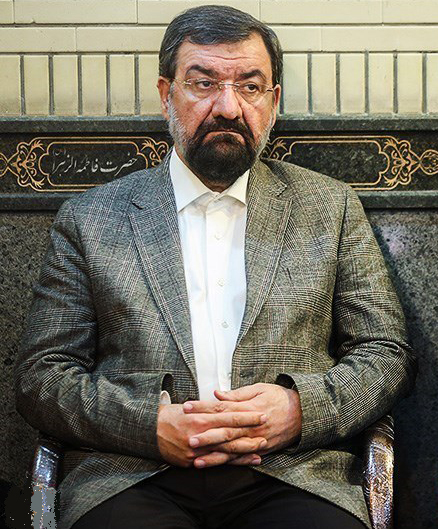 Sardar Amirali Hajizade & Sardar Mohsen Rezaee in Memorial Ceremony of Sardar Hossein Salami's Mother